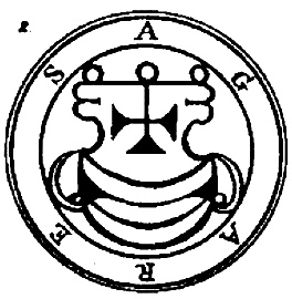 The seal of Agares